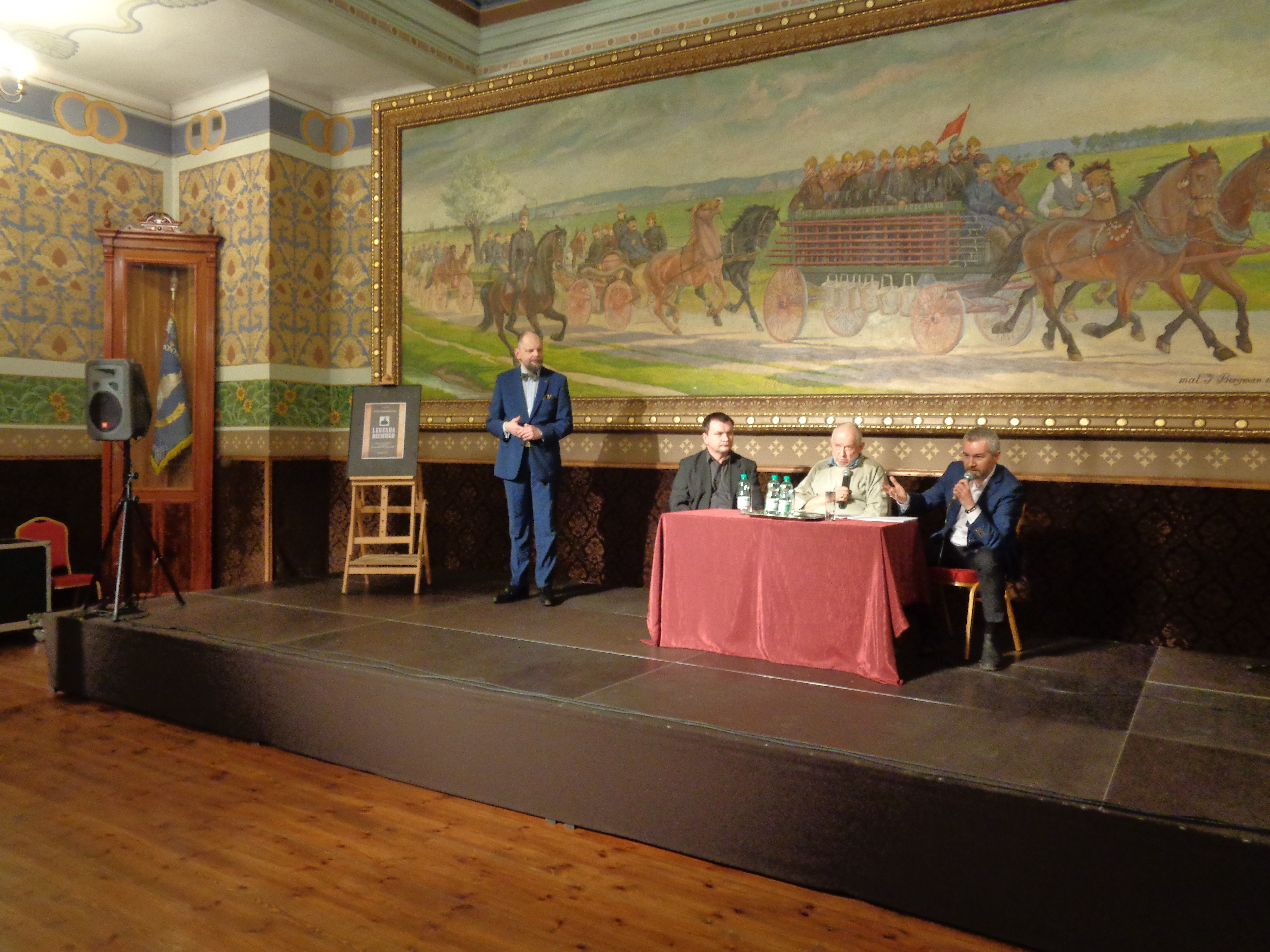 Disputation "Legend of Bechi" about colonel of January Uprising, who was captured in Włocławek. Debate was in Klub Stara Remiza CK Browar B (The Old Fire Station Club) with participation of Tomasz Wąsik (manager of Museum of Włocławek History), Tomasz Dziki (manager of Włocławek's department of State Archive), Kazimierz Andrzejewski (guide of Polish Tourist and Sightseeing Society) and Dariusz Jaworski (leader of Culture Commision of Włocławek City Council).